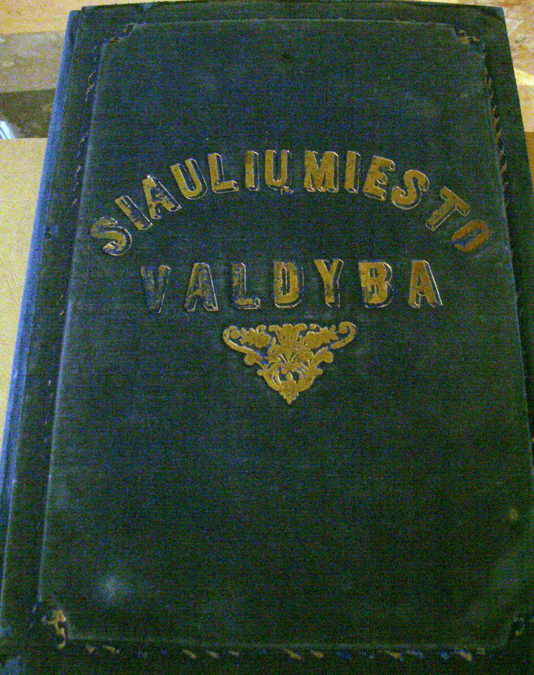 Book of Šiauliai selfgowernement. Museum of history of Lithuania